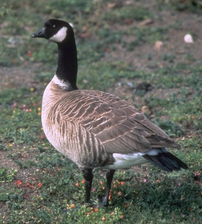 Only slightly larger than a mallard duck, the Aleutian Canada goose is one of the smallest subspecies of Canada goose. It nests only on islands in the North Pacific Ocean.